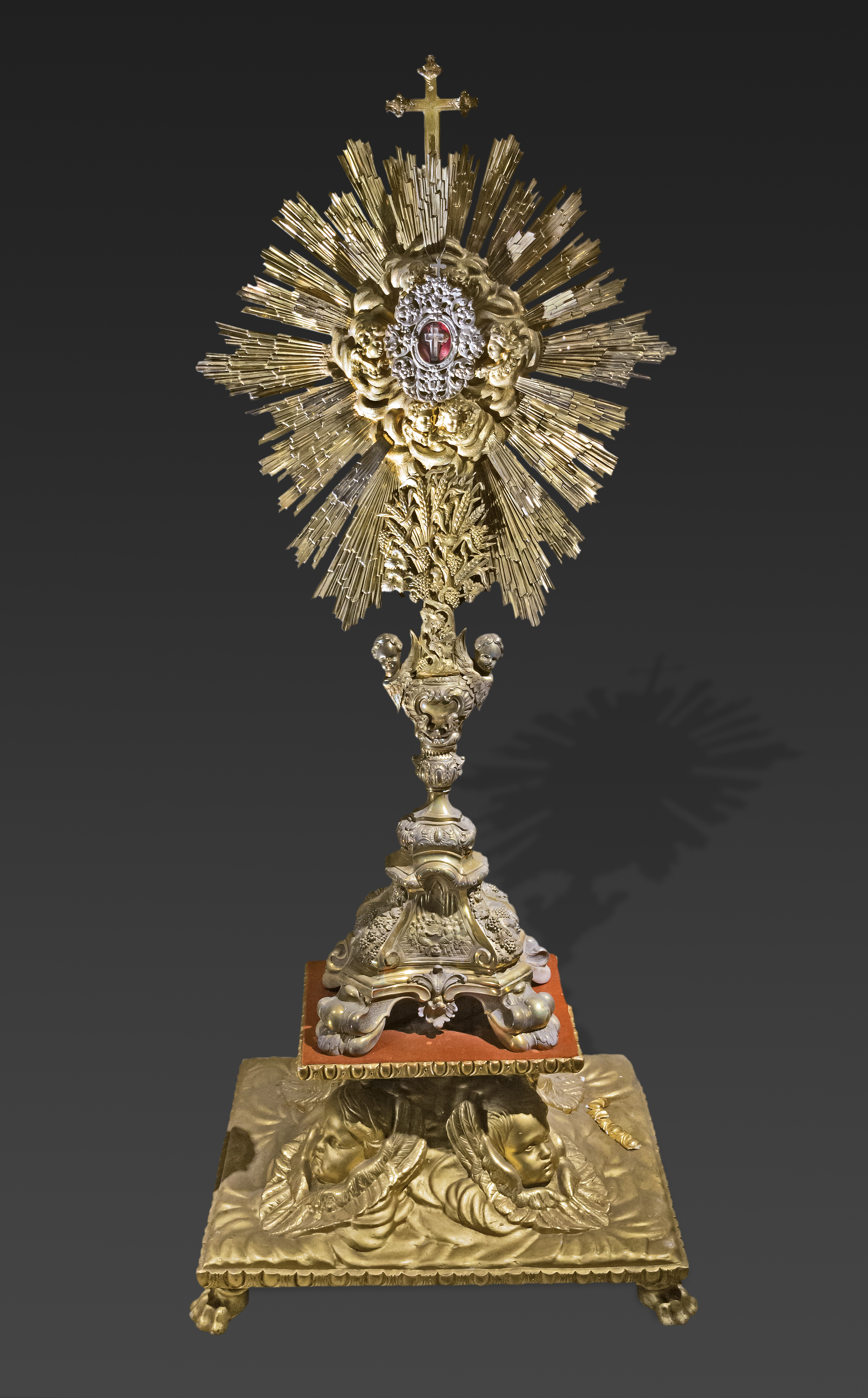 Church Saint-Jérôme from Toulouse. Great ostensorium (monstrance) reliquary of the true cross, vermeil mid-nineteenth century.